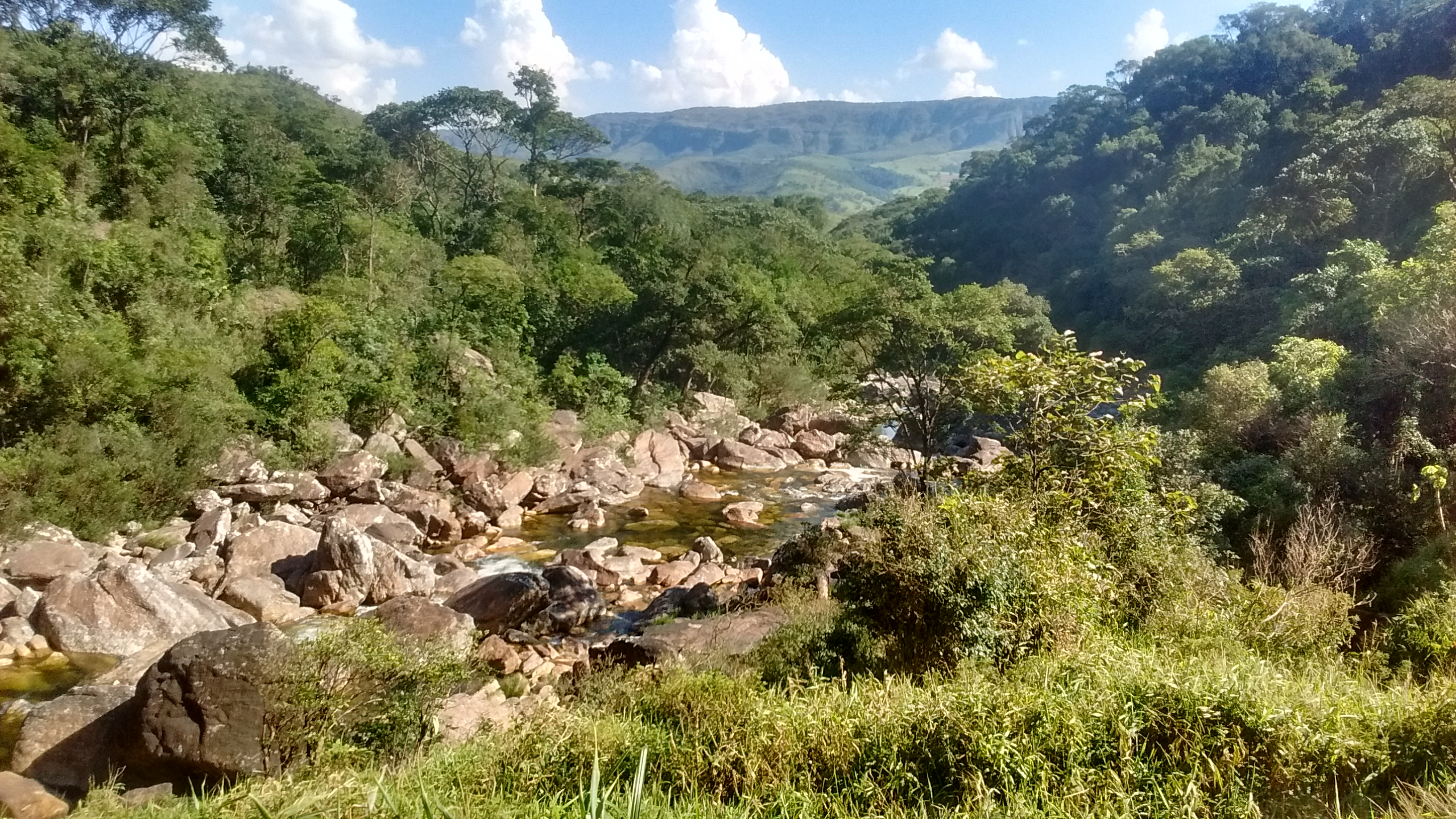 Saint Francis River at Serra da Canastra National Park quite after Casca d'Anta waterfall in São Roque de Minas, Brazil.